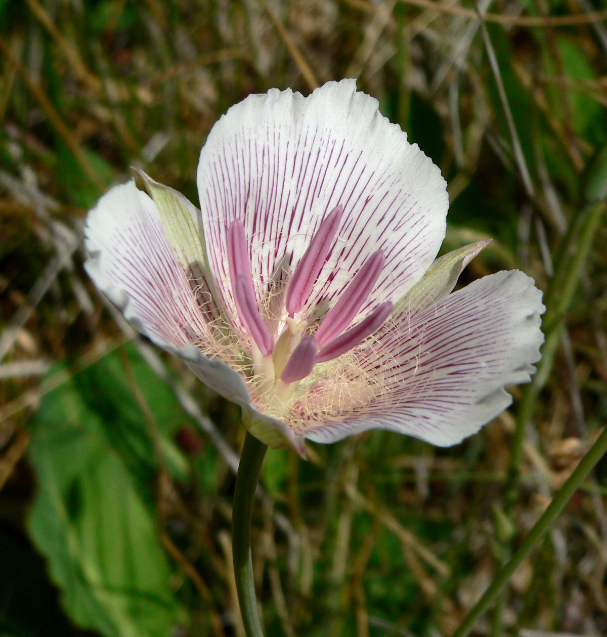 Calochortus striatus in Calico Basin, Spring Mountains, southern Nevada